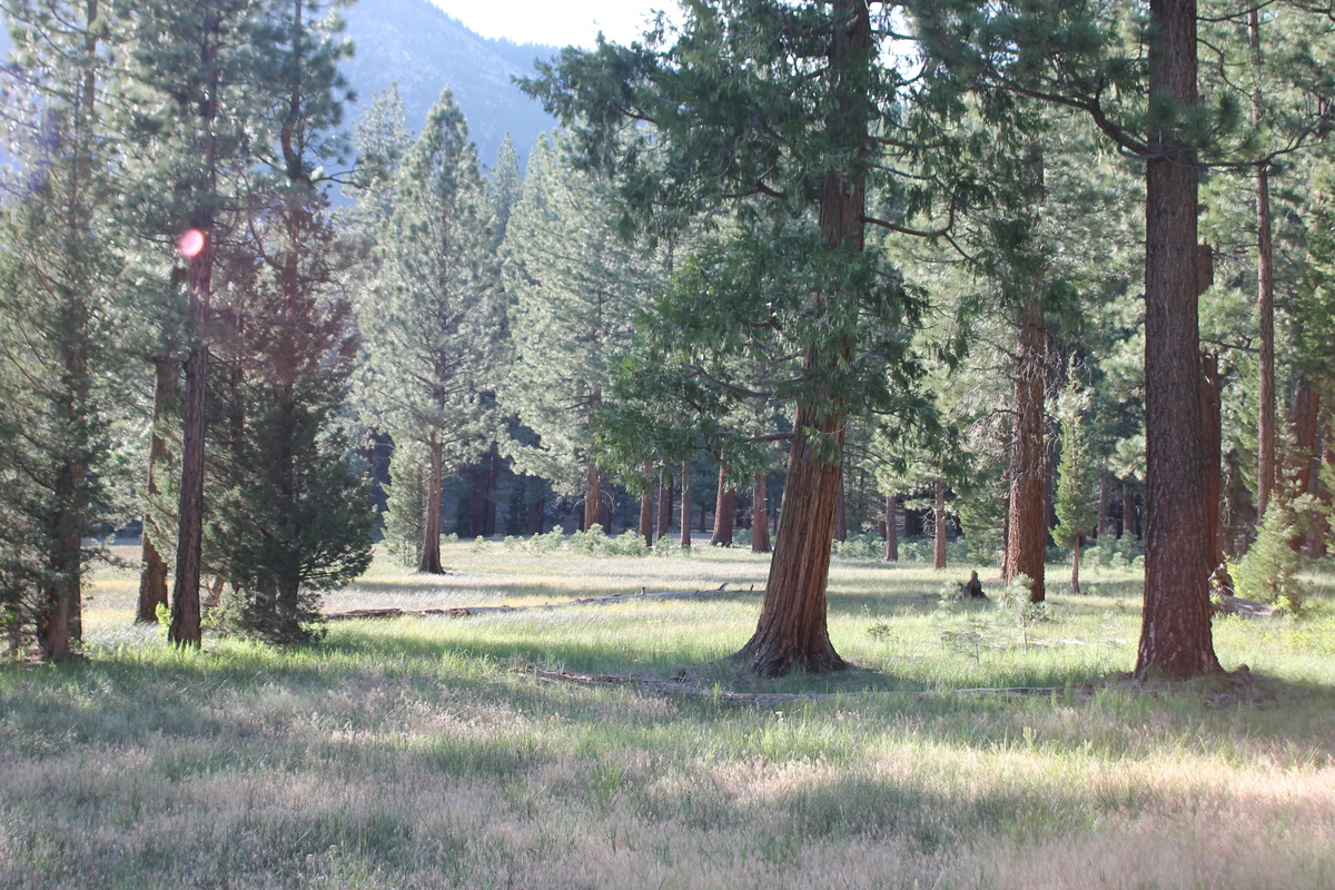 Grover Hot Springs State Park is located on the east side of the Sierra Nevada Mountains at the edge of the Great Basin Province, characterized by open pine forest, and sagebrush and meadows. The park has a pool complex with a hot pool and a swimming pool hot springs, a campground, picnic area and hiking trails.